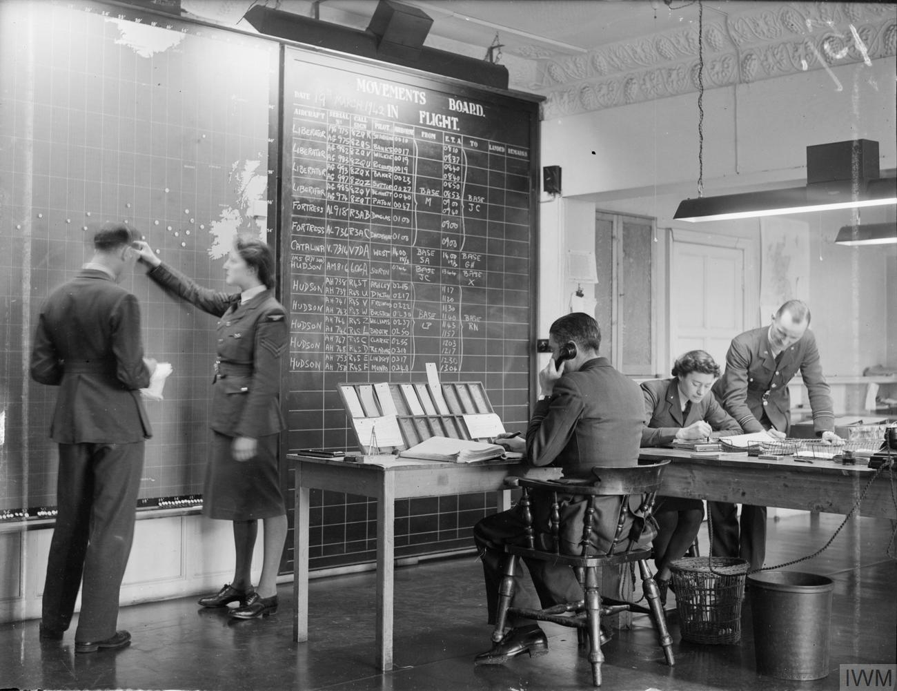 Royal Air Force Ferry Command, 1941-1943. RAF and WAAF personnel at work in the Operations Room of the Atlantic Ferry Service at Prestwick, Ayrshire.